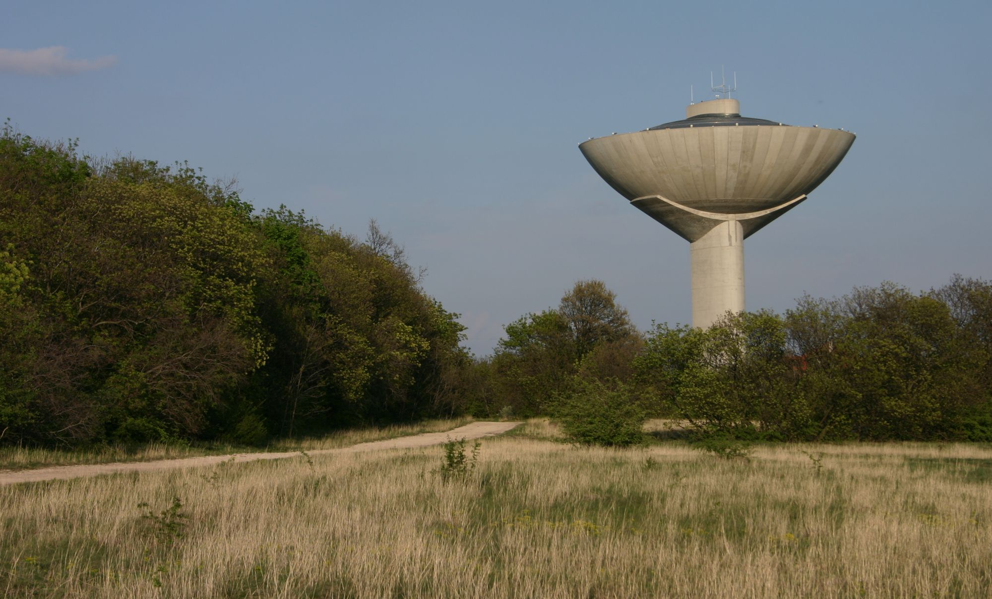 Budatétény Water Tower on Tétényi Plateau, Budapest 22nd district